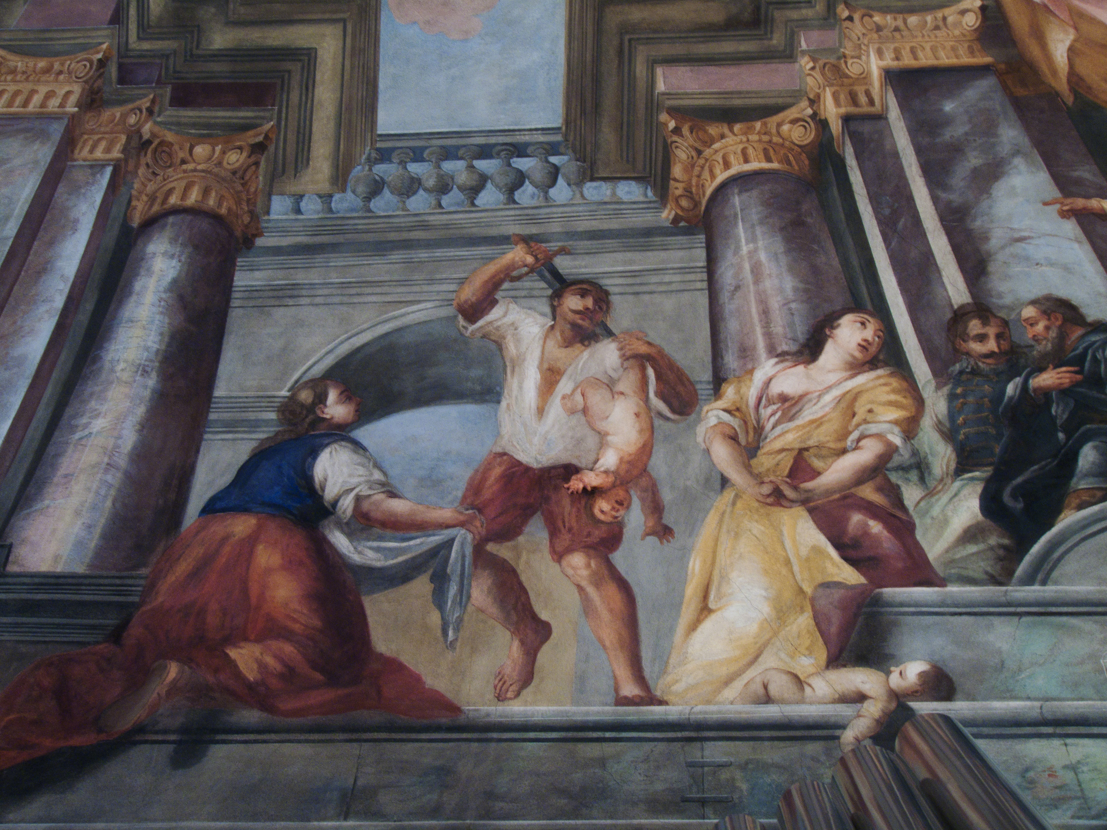 Fresco detail by Jan Adam Schöpf (1737) in the town hall of České Budějovice, Czech Republic, depicting Judgment of Solomon (the room used to be a court). The baby's arm is the only plastic part of the work